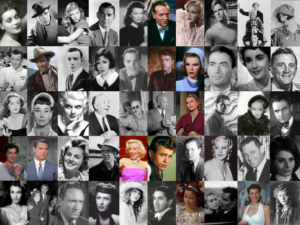 Montage of Golden Hollywood